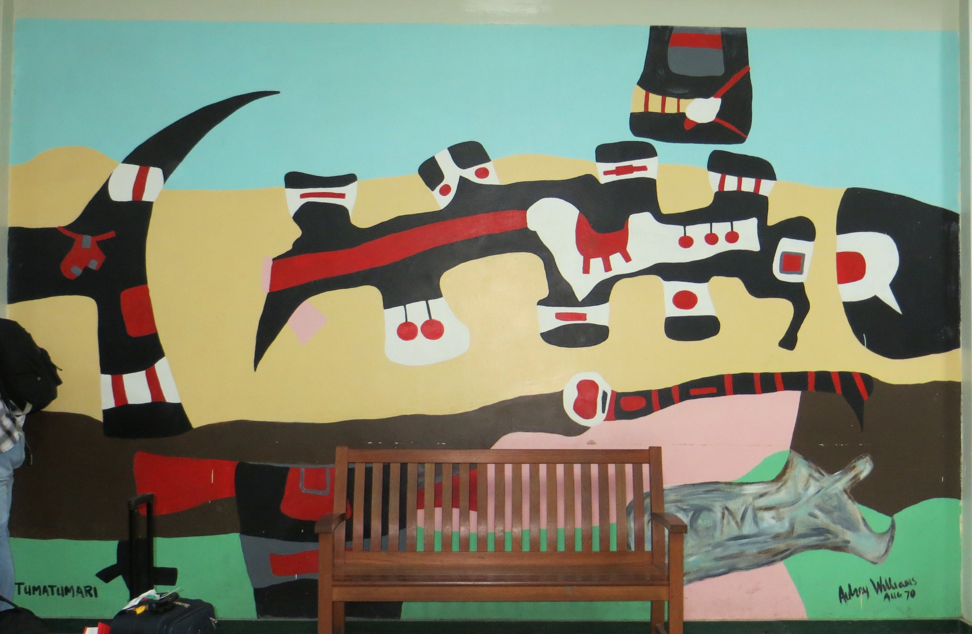 Photograph of 'Tumatumari' by Aubrey Williams, which is part of the Timehri series of murals at the Cheddi Jagan International Airport, Guyana.